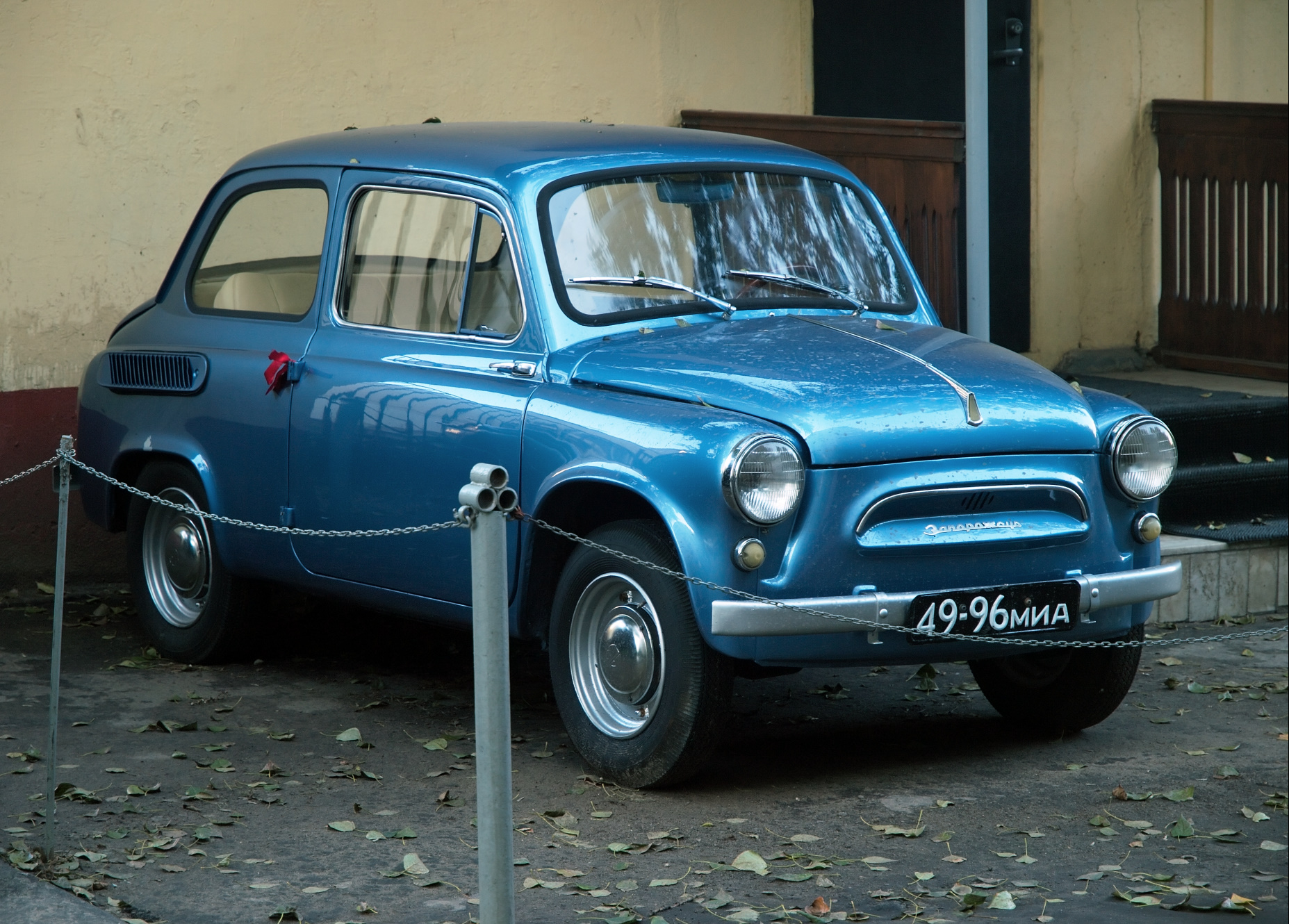 ZAZ-965 parked near Jerusalem church in Moscow (pre-1966).